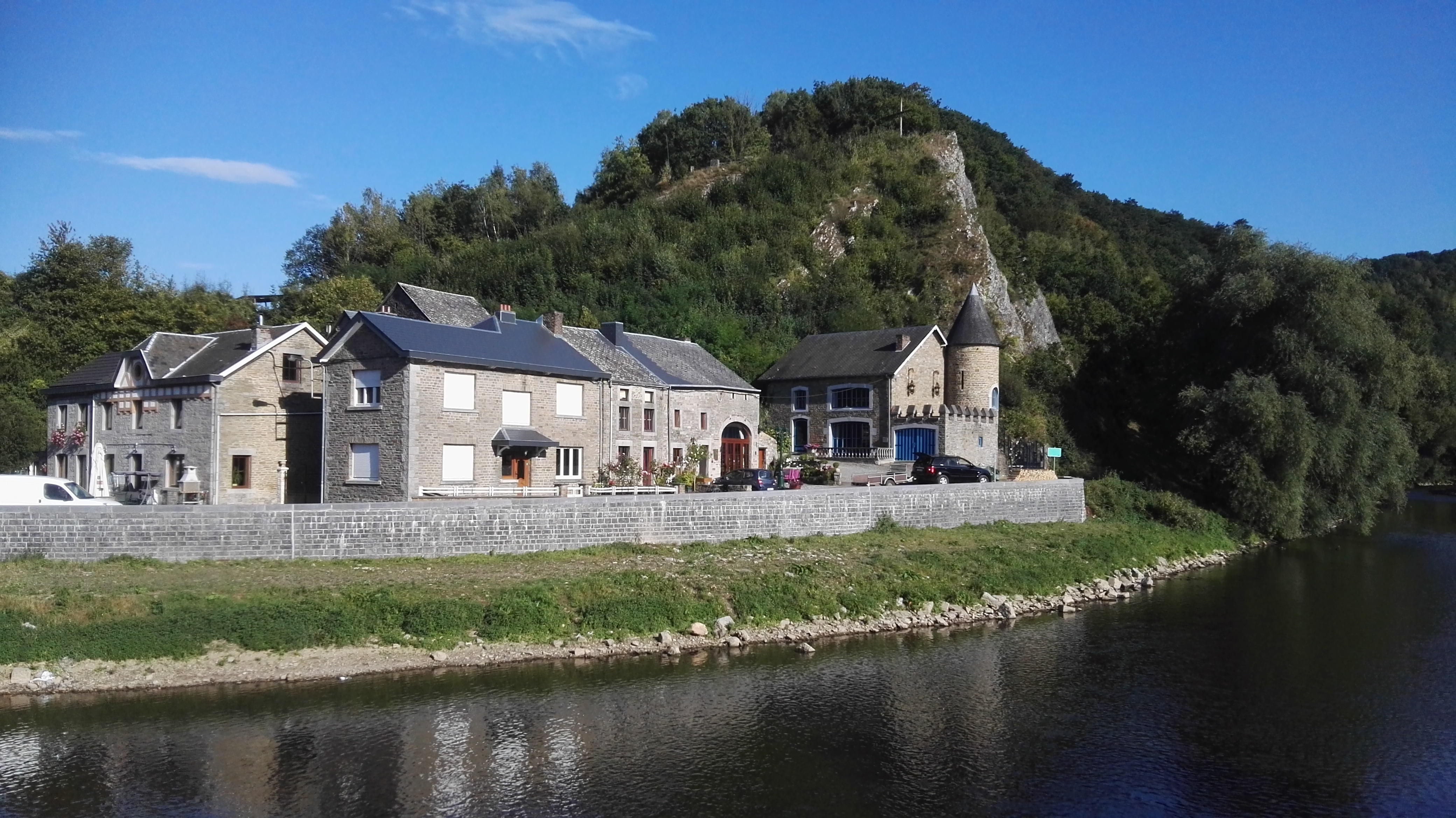 Comblain-au-Pont